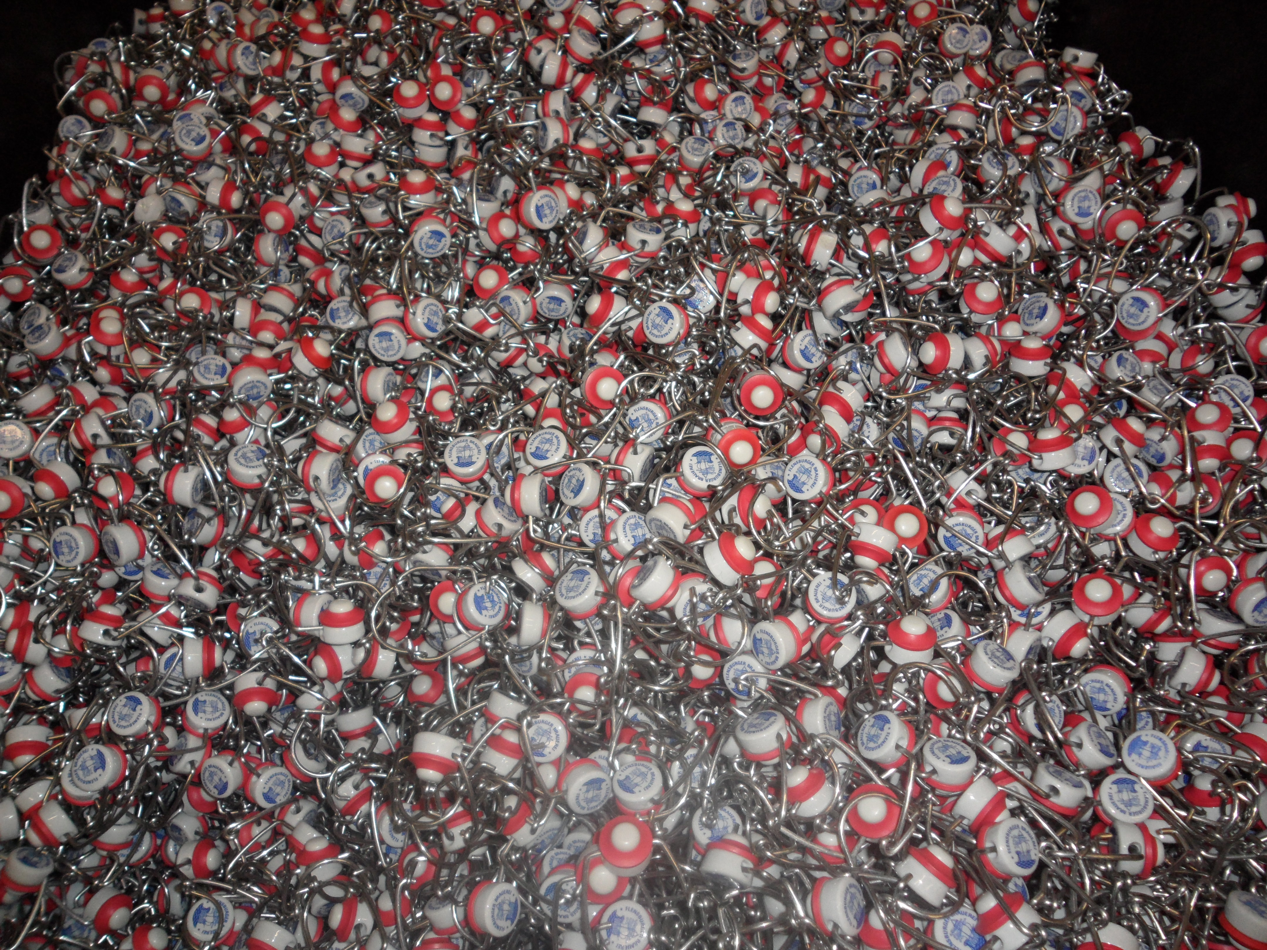 Swing top bottle caps in the Flensburger Brauerei